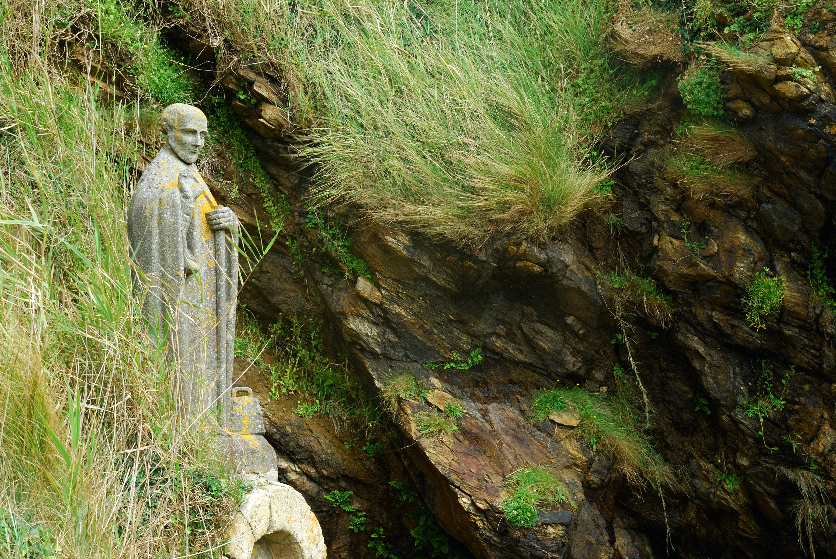 Saint-Gildas-de-Rhuys: Statue of Saint-Gildas. It on the shore line in a small bay near the "Grand-Mont" (Morbihan, France)